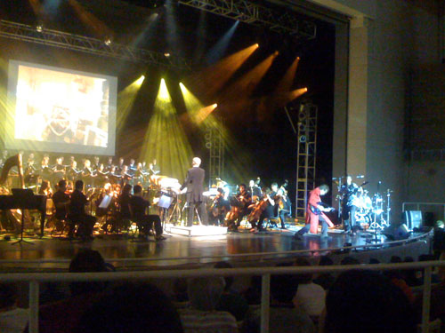 Frank Klepacki (on the right side near the front of the stage with a red coat) playing „Hell March“